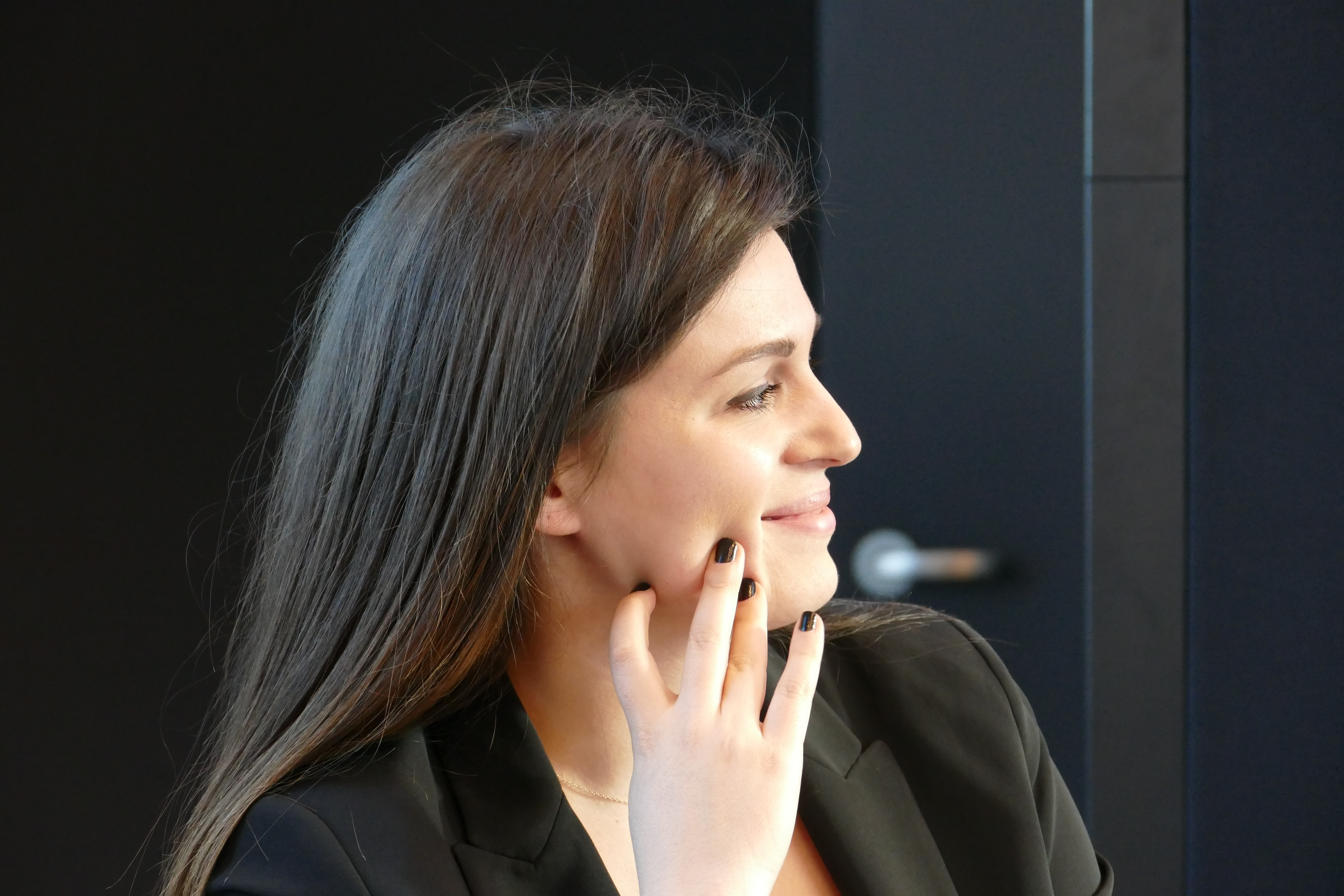 Evgenia Lopata at a panel at the event Fokus Lyrik 2019 in Frankfurt